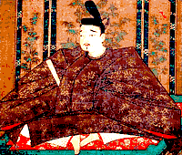 16th Tennō Nintoku (仁徳天皇, Nintoku-tennō, who is presumed to have reigned Japan from 313 till 399 BC.